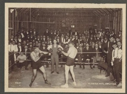 Prest [left] versus Lewis, and the referee, Jimmy Sharman